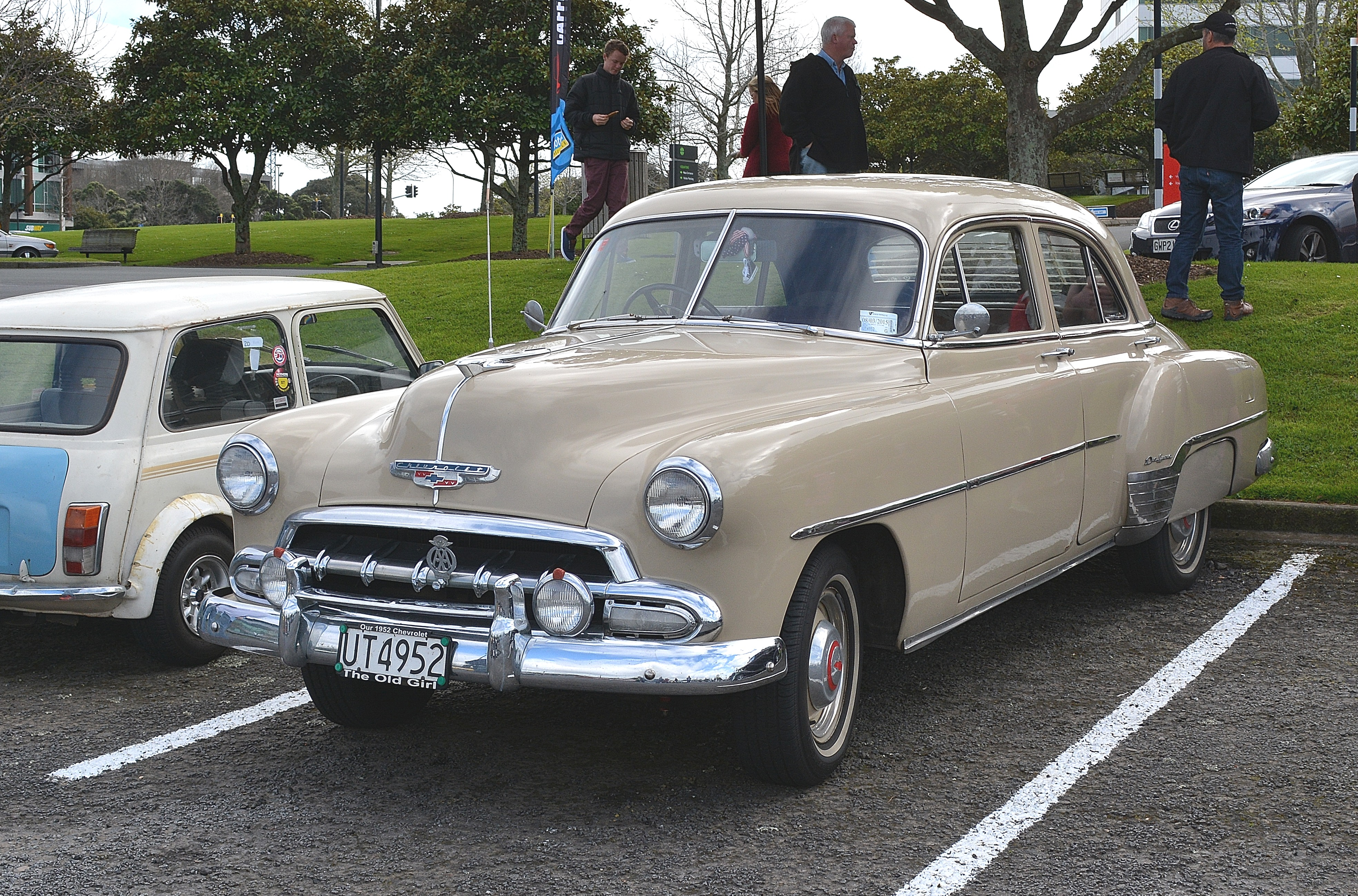 Smales Farm,Northcote.Auckland.New Zealand